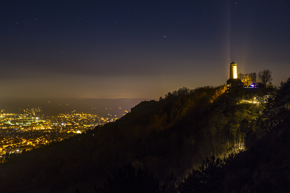 View of the Fuchsturm and the city of Jena at night